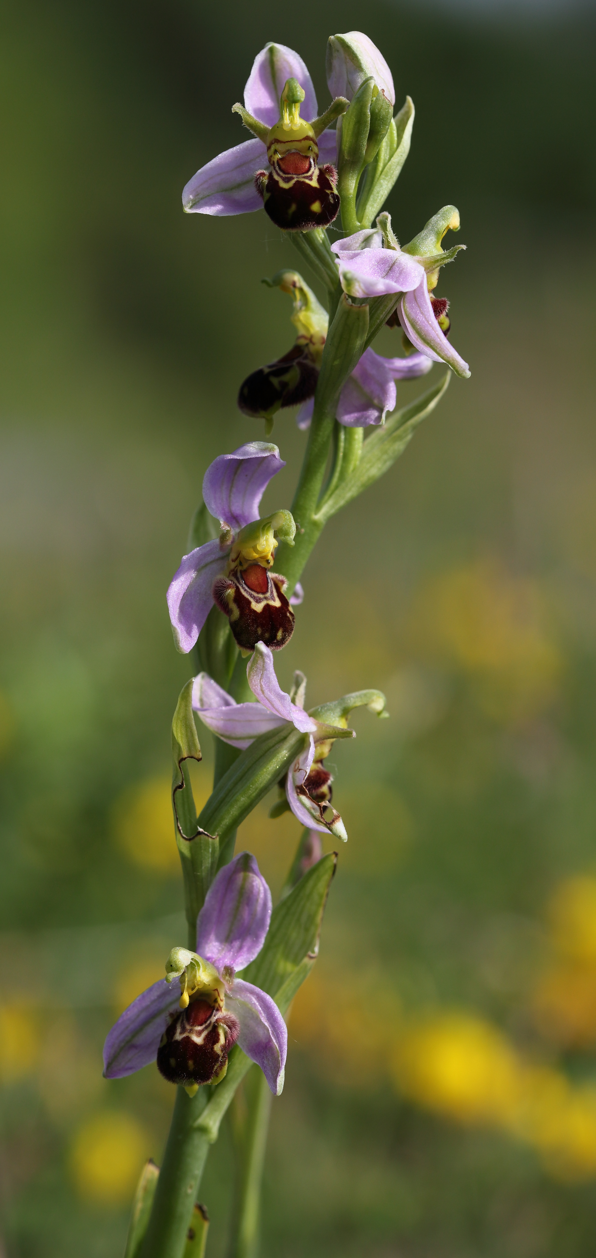 Ophrys apifera: one of around 100 at the RSPB at Conwy, Wales.